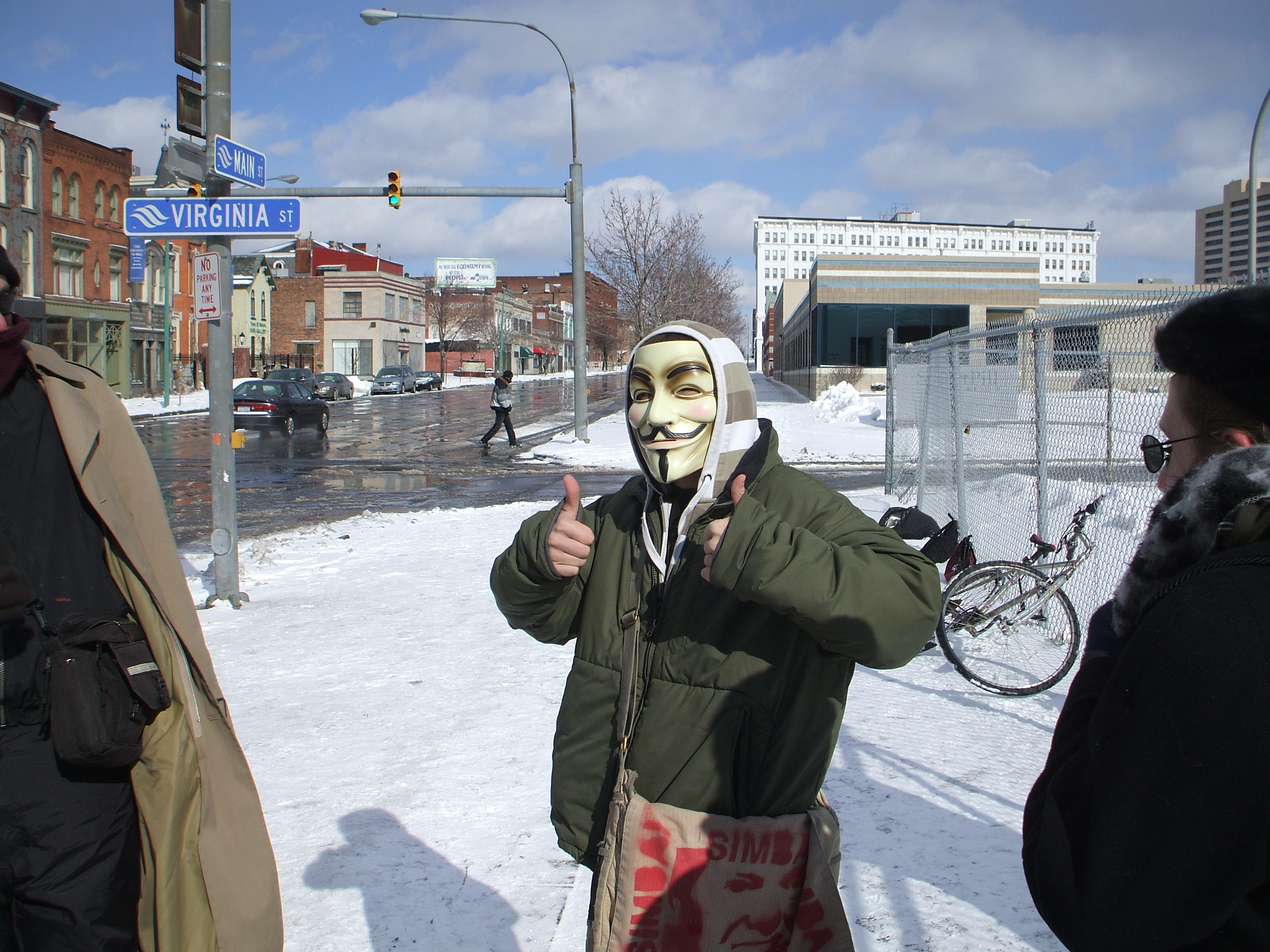 A member of Anonymous wears a mask at the 2008 protests against the Church of Scientology on February 10 in Buffalo New York. He was quickly asked by an off duty police officer to remove the mask as they are illegal for protests in New York State.